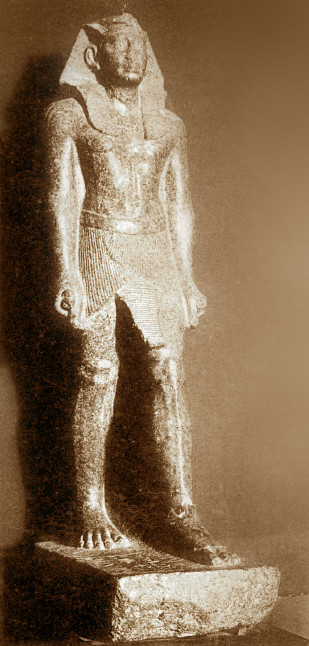 Statue of Sobekemsaf I, from Abydos, now in the Egyptian Museum, Cairo (CG 386)